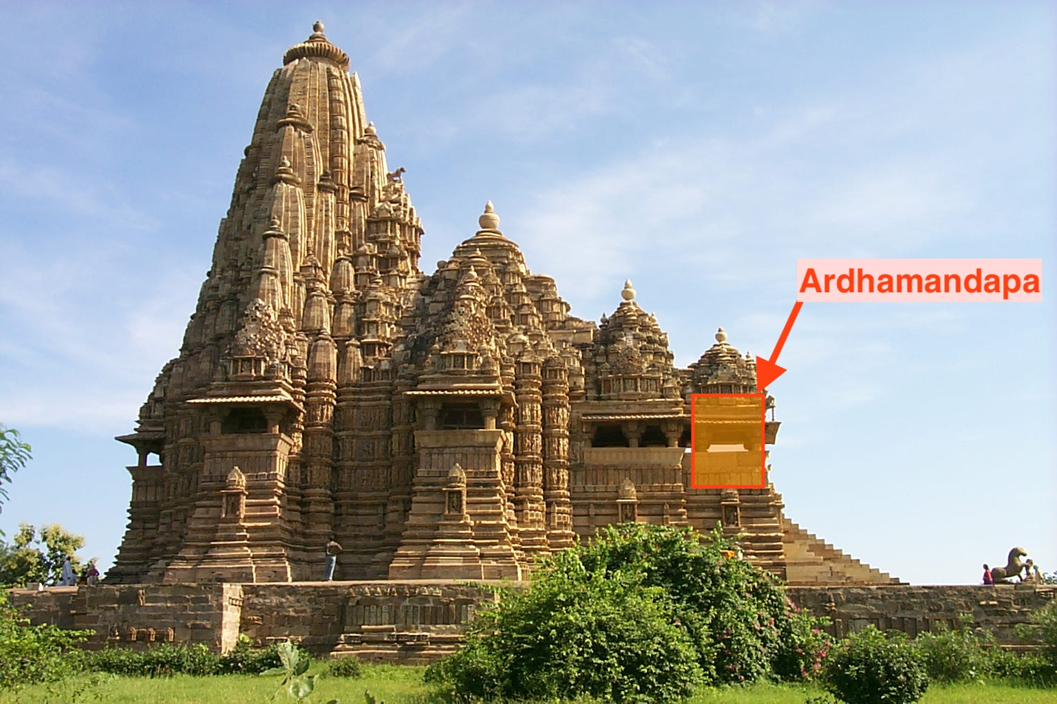 Ardhamandapa is the pillared half hall, usually in front of every entrance into the temple. It serves as the reception area, where a pilgrim or visitor may settle in (e.g. after walking in from rain). It usually has carvings and friezes narrating legends from Hindu texts as well secular scenes such as musicians, sculptures of single women or men, or amorous couples (mithuna). This is derivative work on Khajuraho - Kandariya Mahadeo Temple.jpg